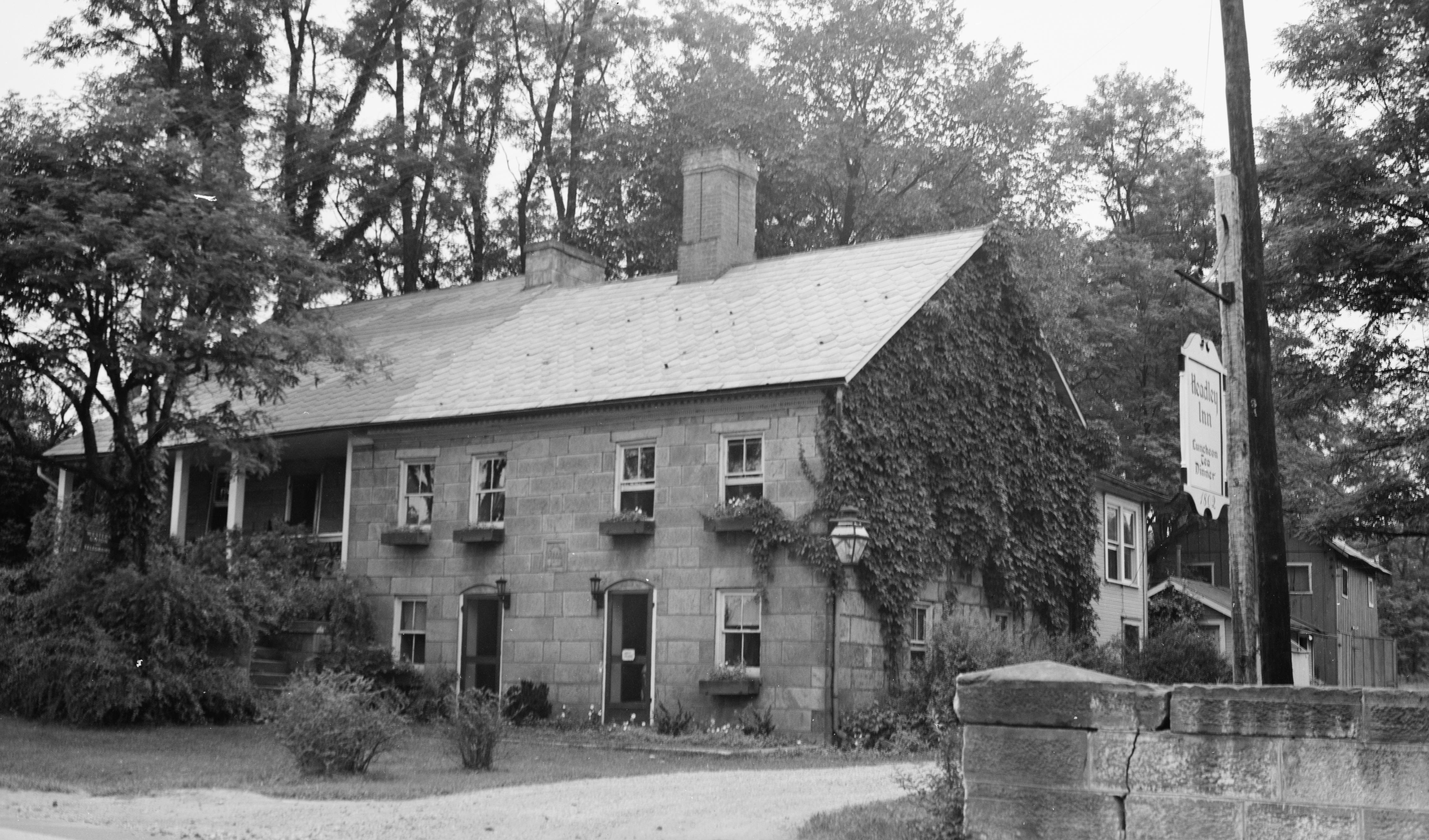 View of the front of the Usual Headley Inn, located along U.S. Route 40 (the old National Road) west of Zanesville in southwestern Falls Township, Muskingum County, Ohio, United States. Built in 1830, the inn is part of a complex listed on the National Register of Historic Places as the Headley Inn, Smith House and Farm.